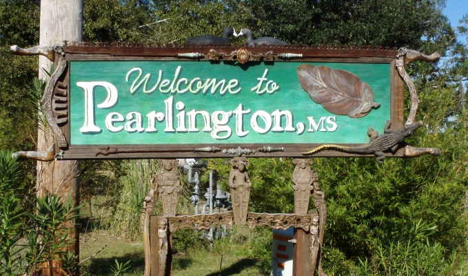 Sign welcoming visitors to Pearlington, taken on October 13, 2007 by Ichabod. It was built by volunteers entirely from hurricane debris.